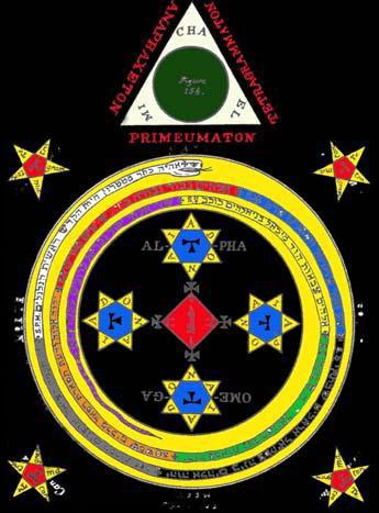 Full colour Göetic circle and triangle, (image created from Göetic diagram in the Public Domain)